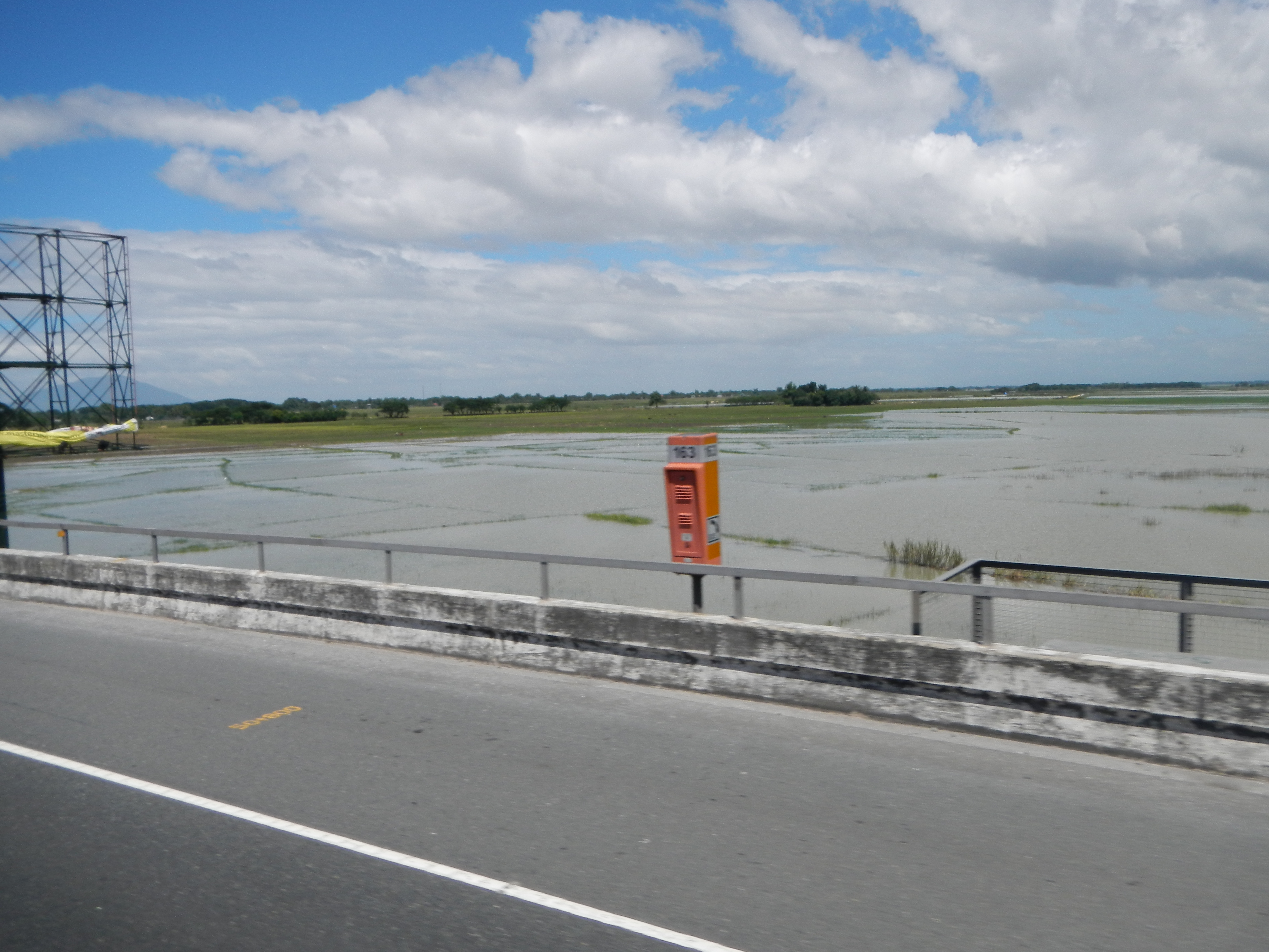 The Candaba Viaduct is a 5 km (3 mi). bridge passing over the Candaba Swamps and adjacent Pampanga River in the North Luzon Expressway. It is one of the longest bridges in the Philippines consists of 4 lanes (2 northbound and 2 southbound). The Candaba viaduct is raised over the Candaba swamp which keeps the highway open to traffic, even when the swamp gets flooded during the rainy season. It has a very nice view of Mt. Arayat, which is the lone mountain in Central Plain.[1]